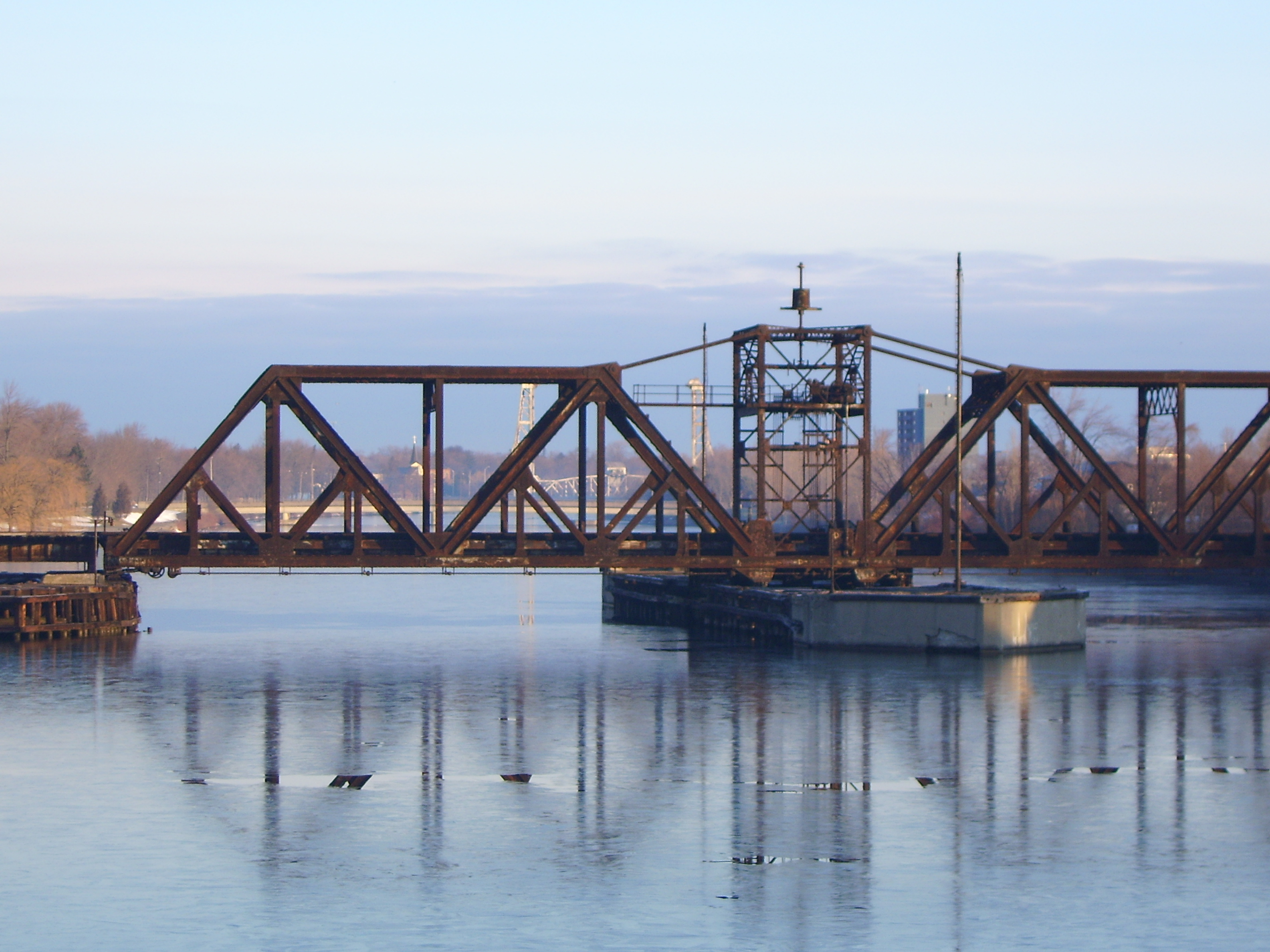 A view of the Welland Canal bridge 15 (former Canada Southern Railway main line, now a little used branch line owned by the Canadian Pacific Railway and operatied by Port Colborne Harbour Railway). The bridge crosses the Welland Recreational Waterway, an abandoned channel of the Welland Canal and has not swung since the end of the 1972 shipping season. The bridge is a rare Baltimore Truss. Bridge 13, the Main Street vertical lift bridge, can be seen in the background. Also visible in the background is the modern Lincoln Street Bridge, which replaced vertical lift bridge 14.